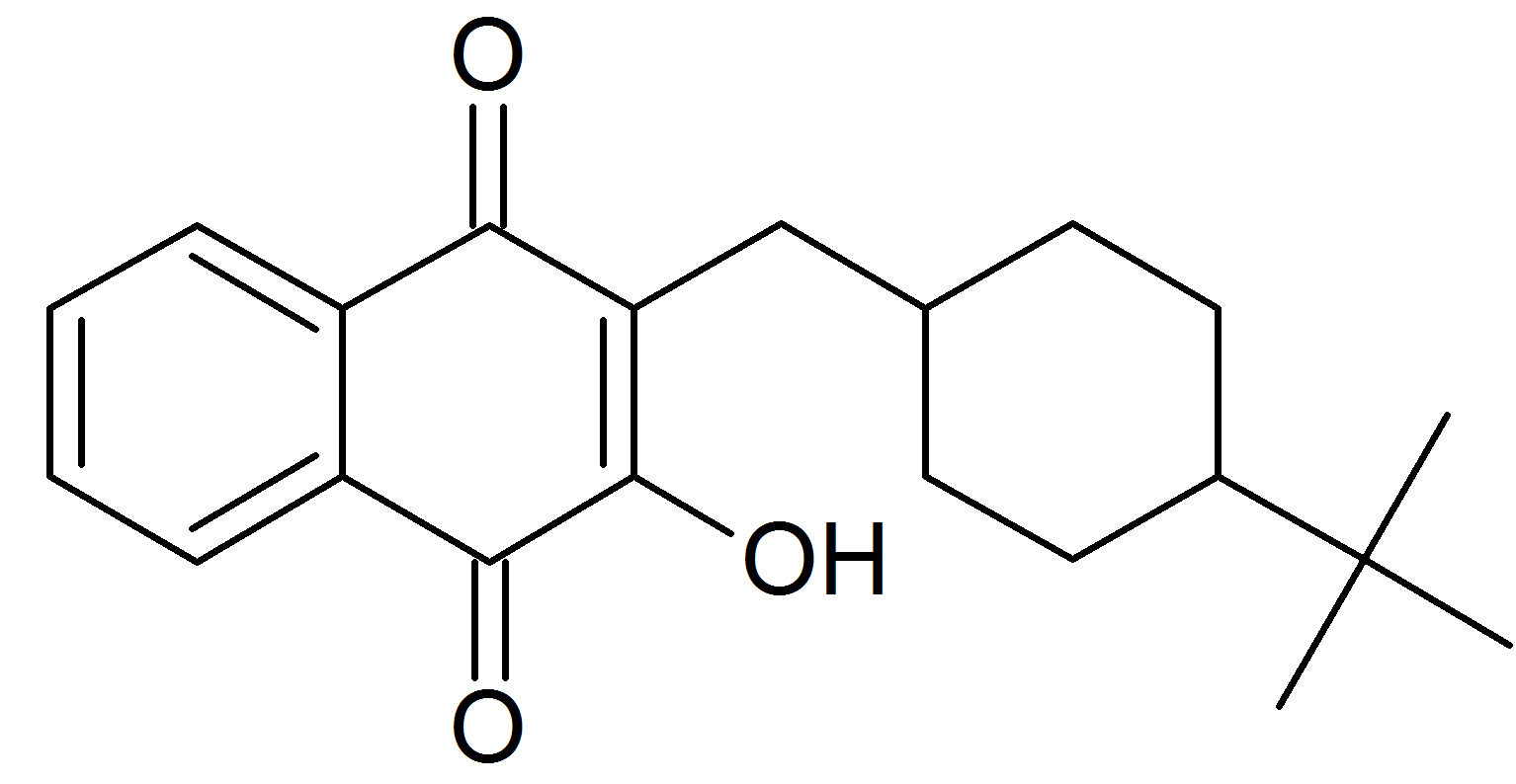 Structure of buparvaquone